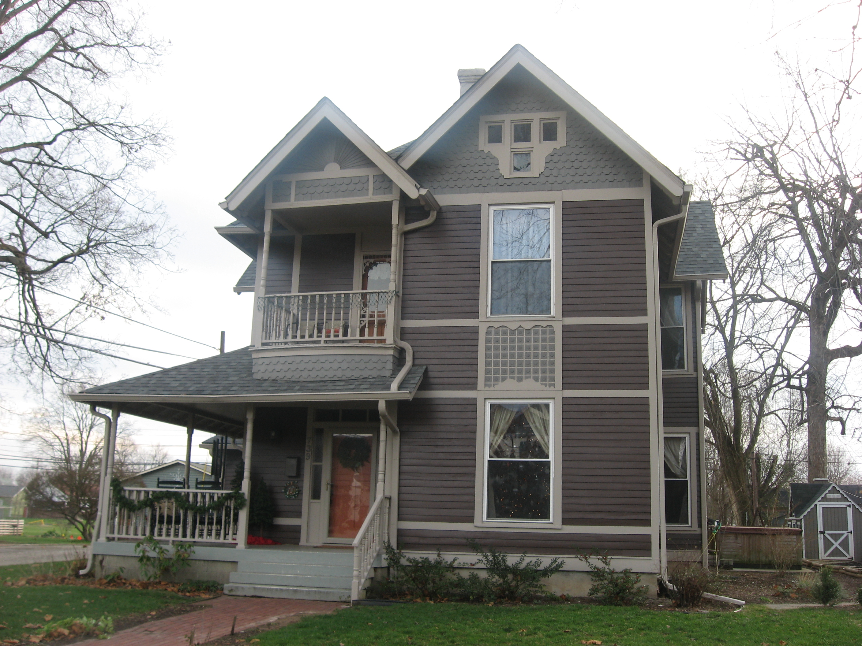 Front and western side of the Neely House, located at 739 E. Washington Street in Martinsville, Indiana, United States. Built in 1895, it is listed on the National Register of Historic Places, and it is part of a Register-listed historic district, the East Washington Street Historic District.